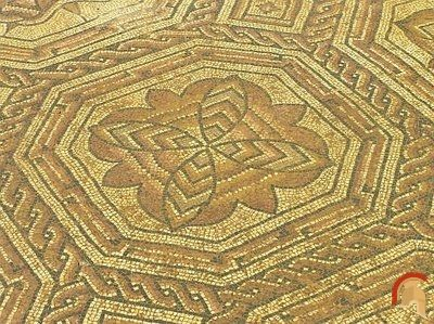 Villa Romana Orpheus de Camarzana de Tera